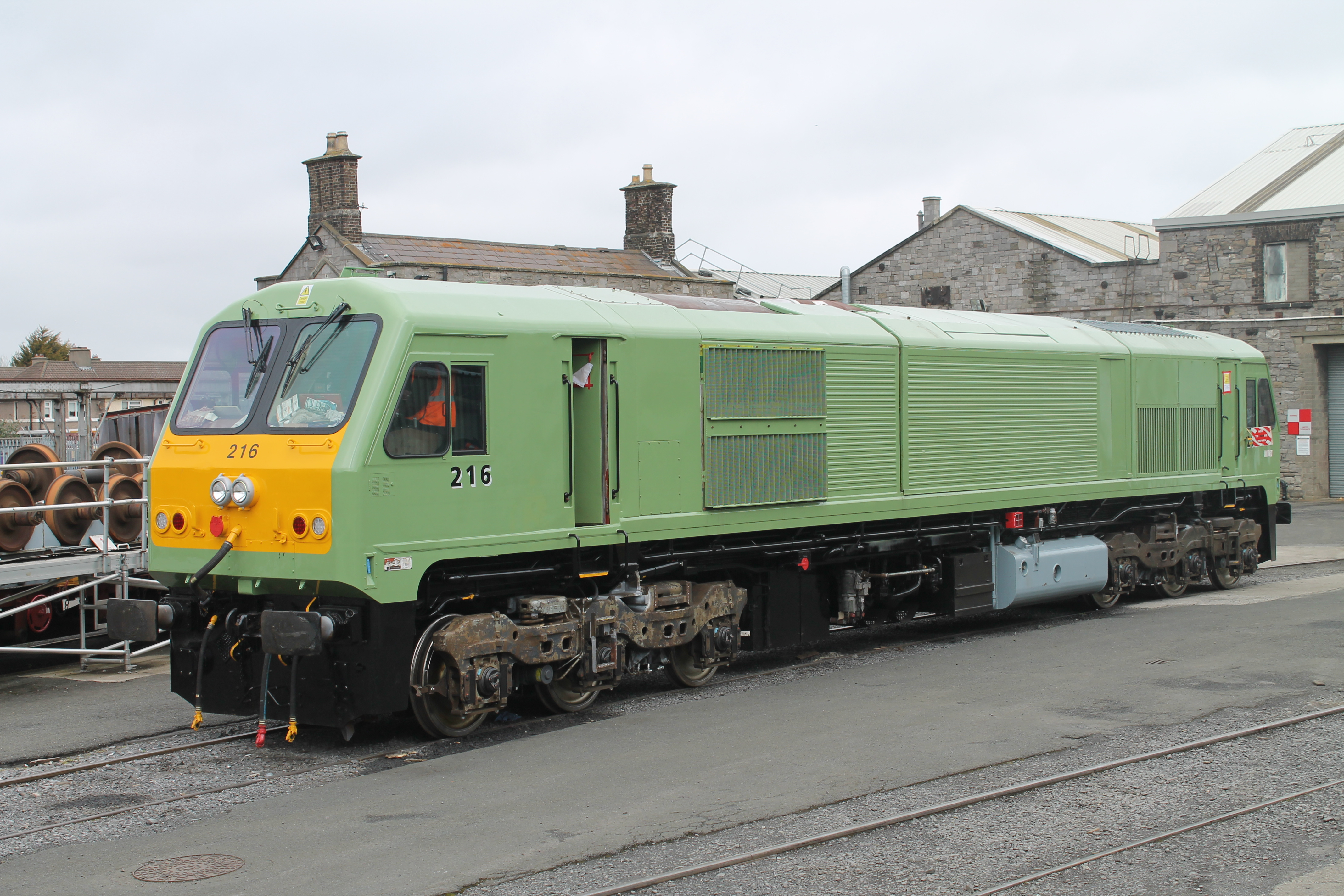 Belmond locomotive No. 216 at Inchicore. 07/04/2016